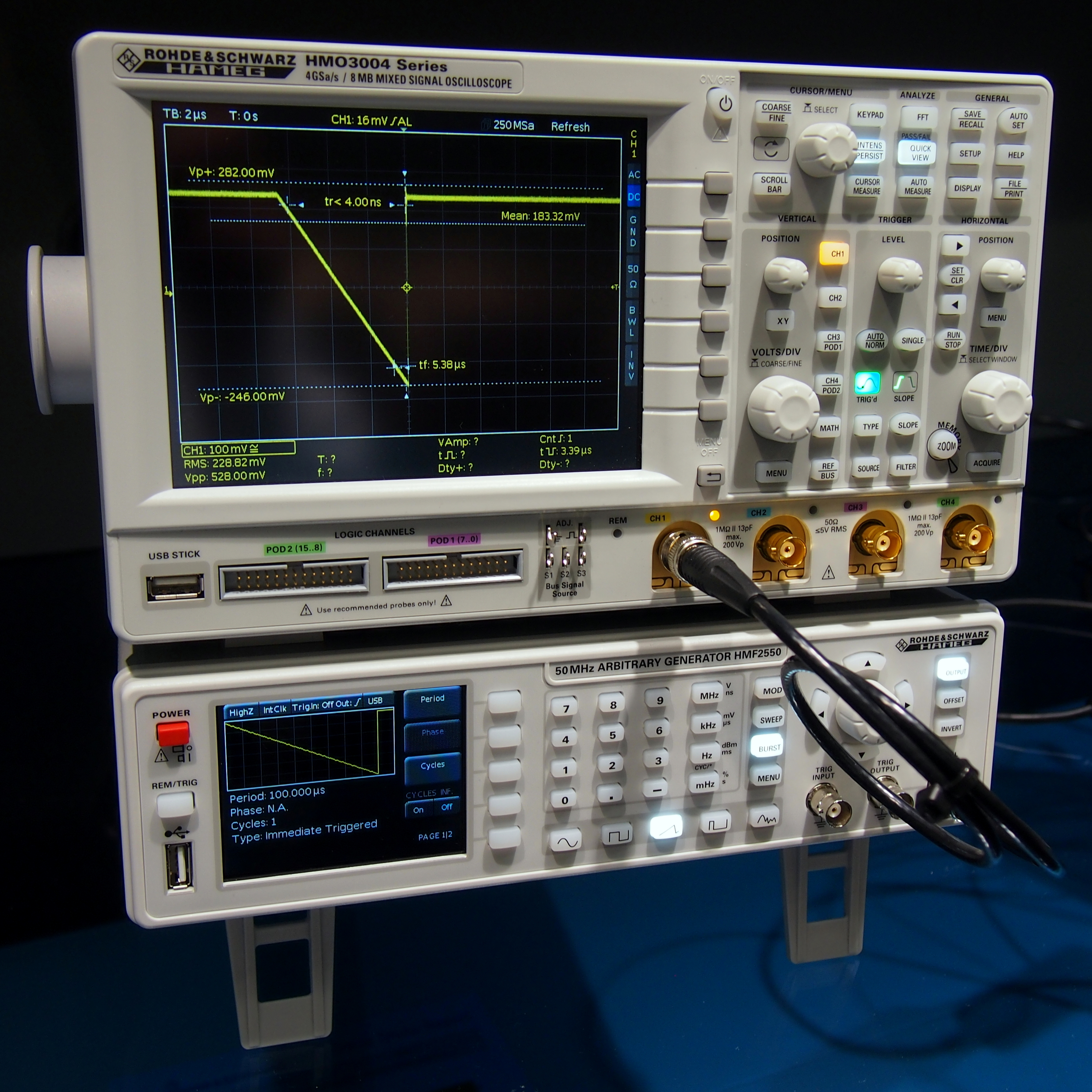 Embedded World 2014: Oscilloscope HMO 3004 and Arbitrary Waveform Generator (AWG) HMF 2550 manufactured from HAMEG/Rhode und Schwarz